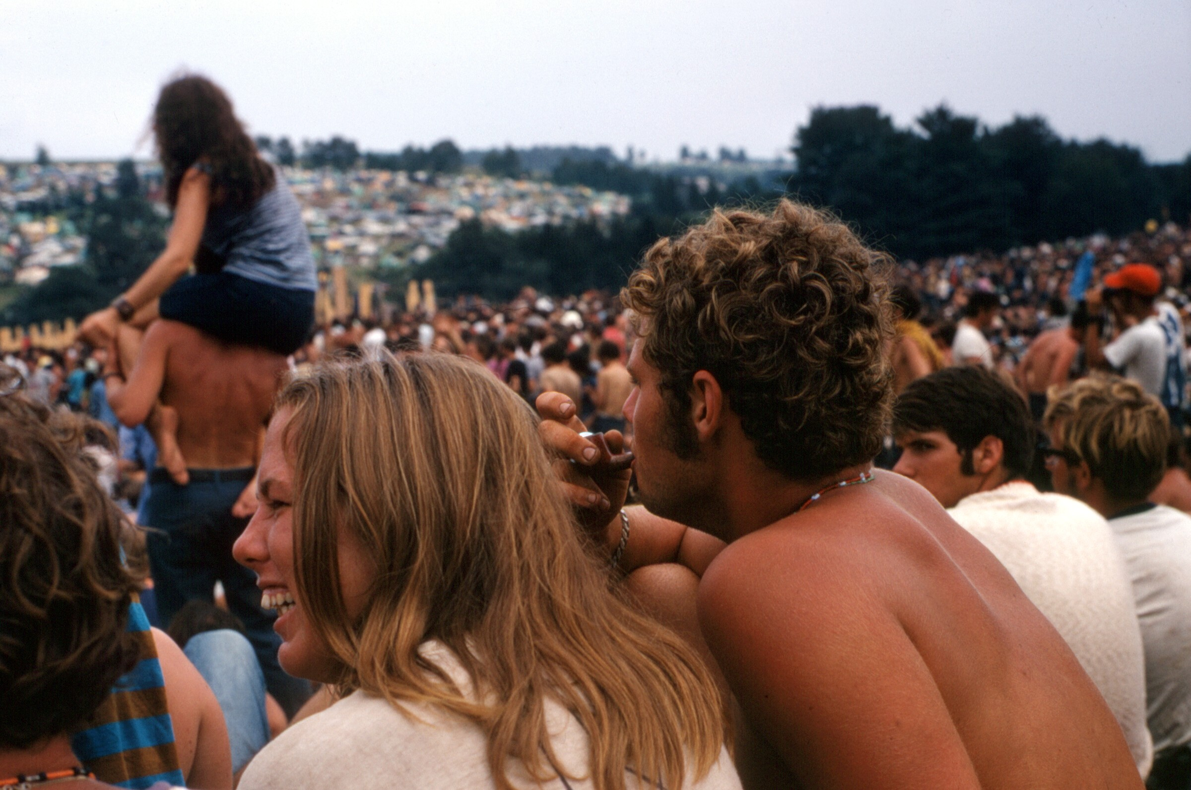 Another impression of Woodstock is that 400,000 people where high on LSD, marijuana, and other drugs. While it was certainly true that some attendees used drugs (note the hash pipe here), many attendees simply enjoyed the whole experience and were "straight" the whole weekend.